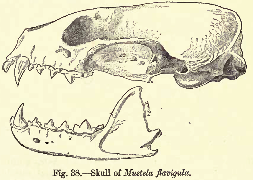 Skull of a kharza